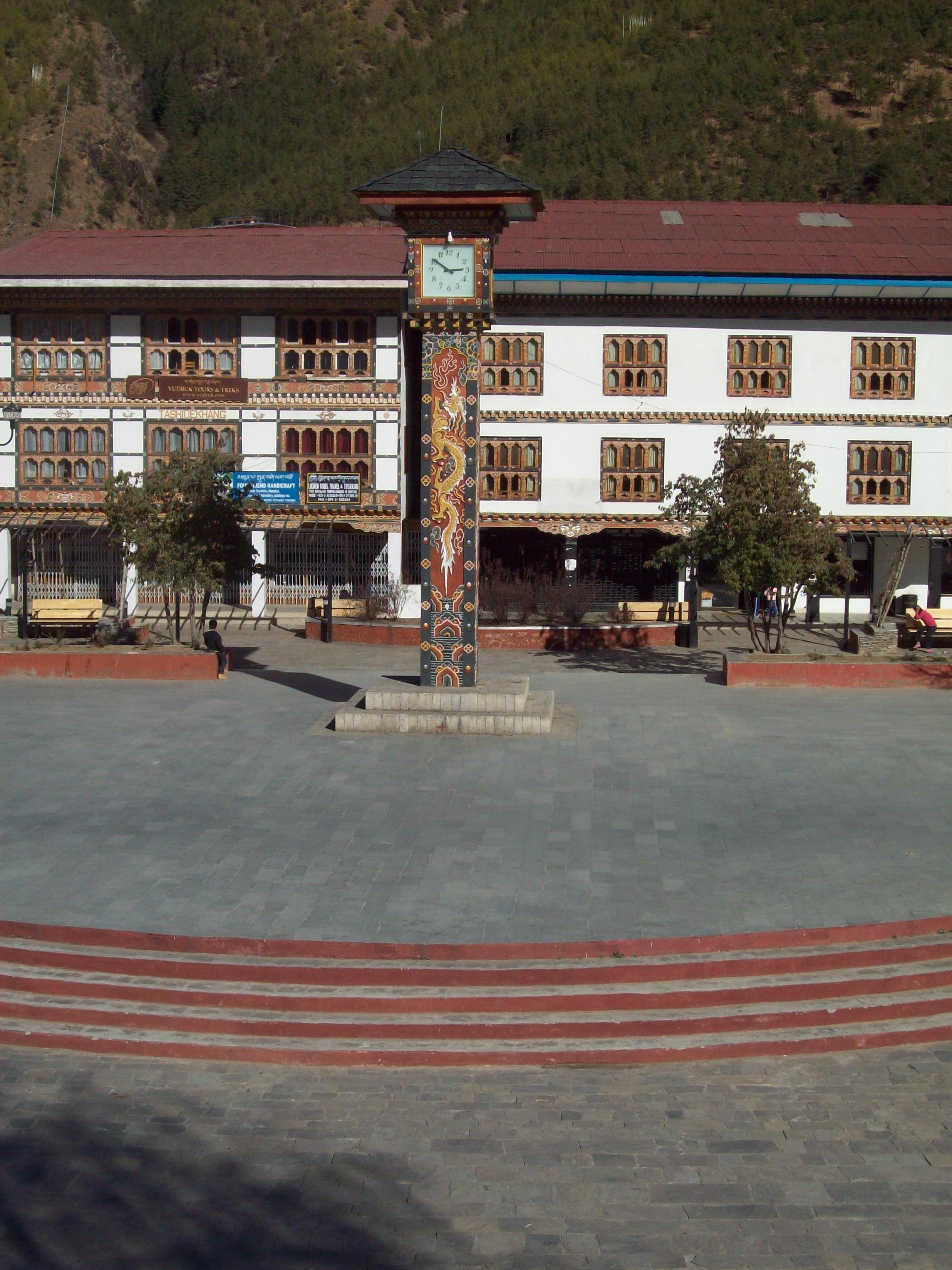 Clock Tower, a major landmark in Thimphu